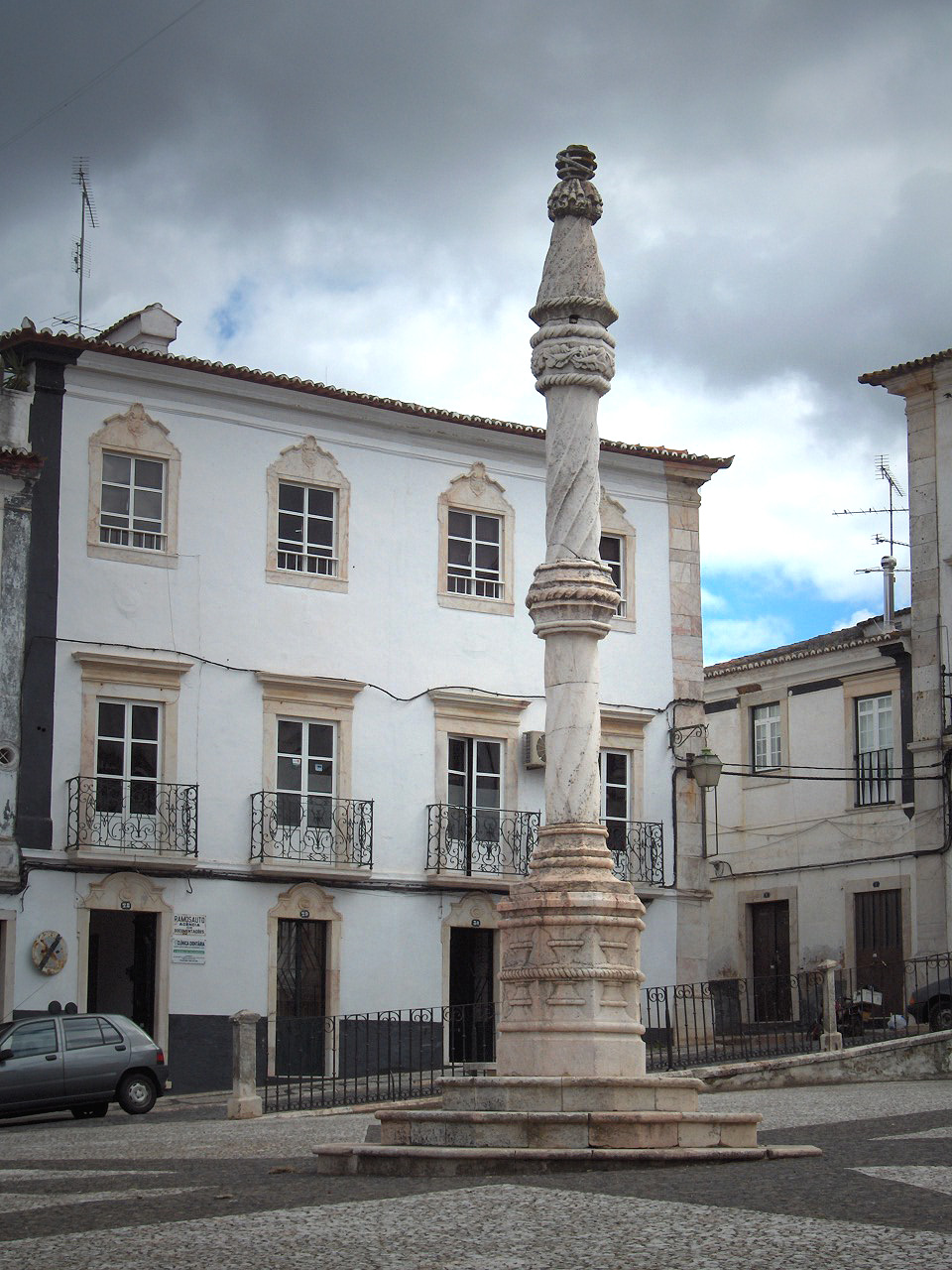 Pillory in the lower town, Estremoz, Portugal